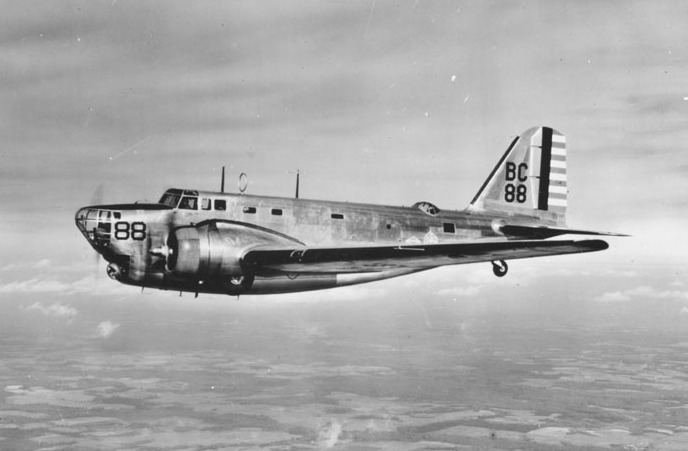 Description: Douglas B-18A airplane of the 3d Bombardment Group in flight.